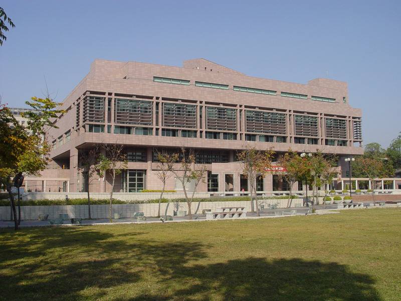 National Cheng Kung University Library.中文（台灣）: 國立成功大學圖書館。